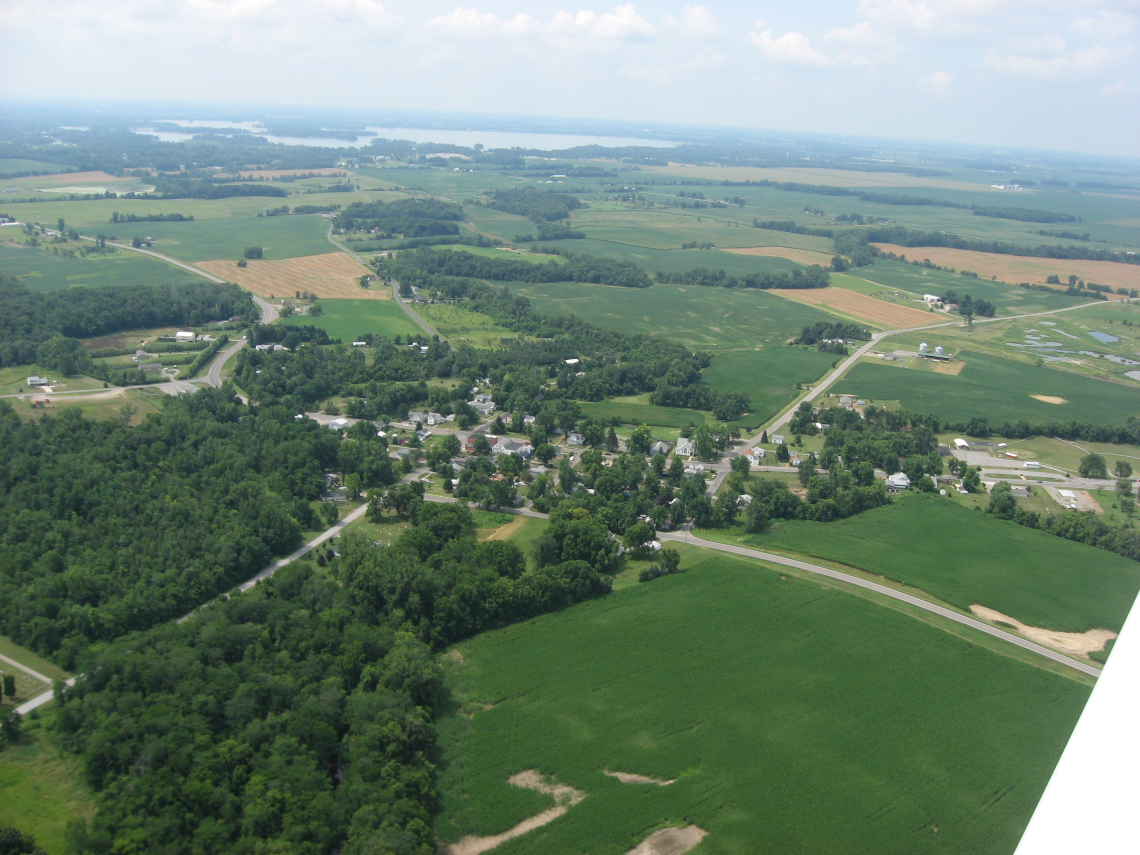 The unincorporated community of Roundhead in southern Roundhead Township, Hardin County, Ohio, United States. Picture taken from a Diamond Eclipse light airplane at an altitude of 1,850 feet MSL and a bearing of approximately 210º.